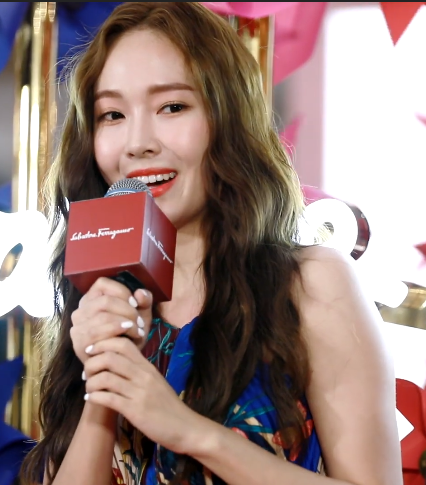 181102 Jessica Jung at Salvatore Ferragamo Event in Hong Kong